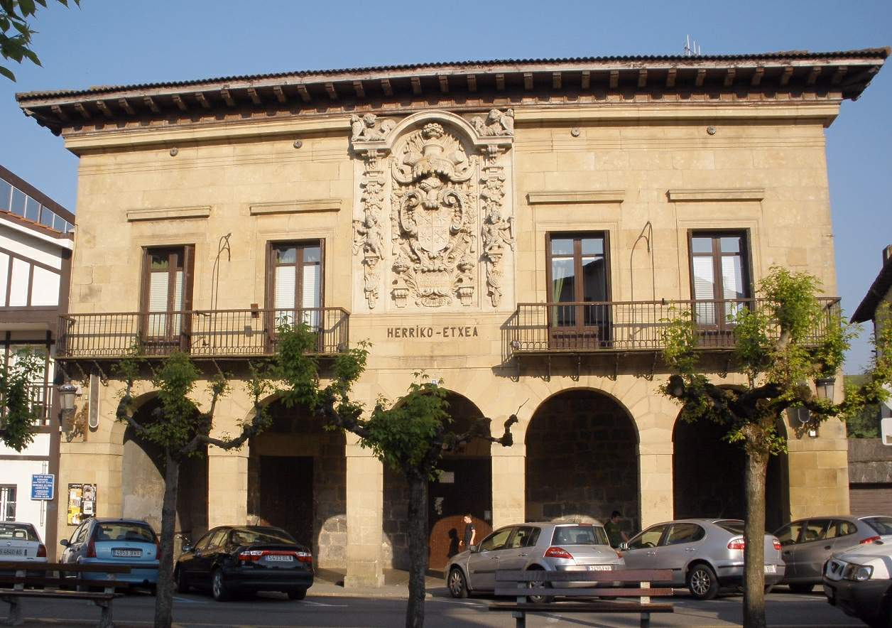 Ayuntamiento de Urnieta (Guipúzcoa)